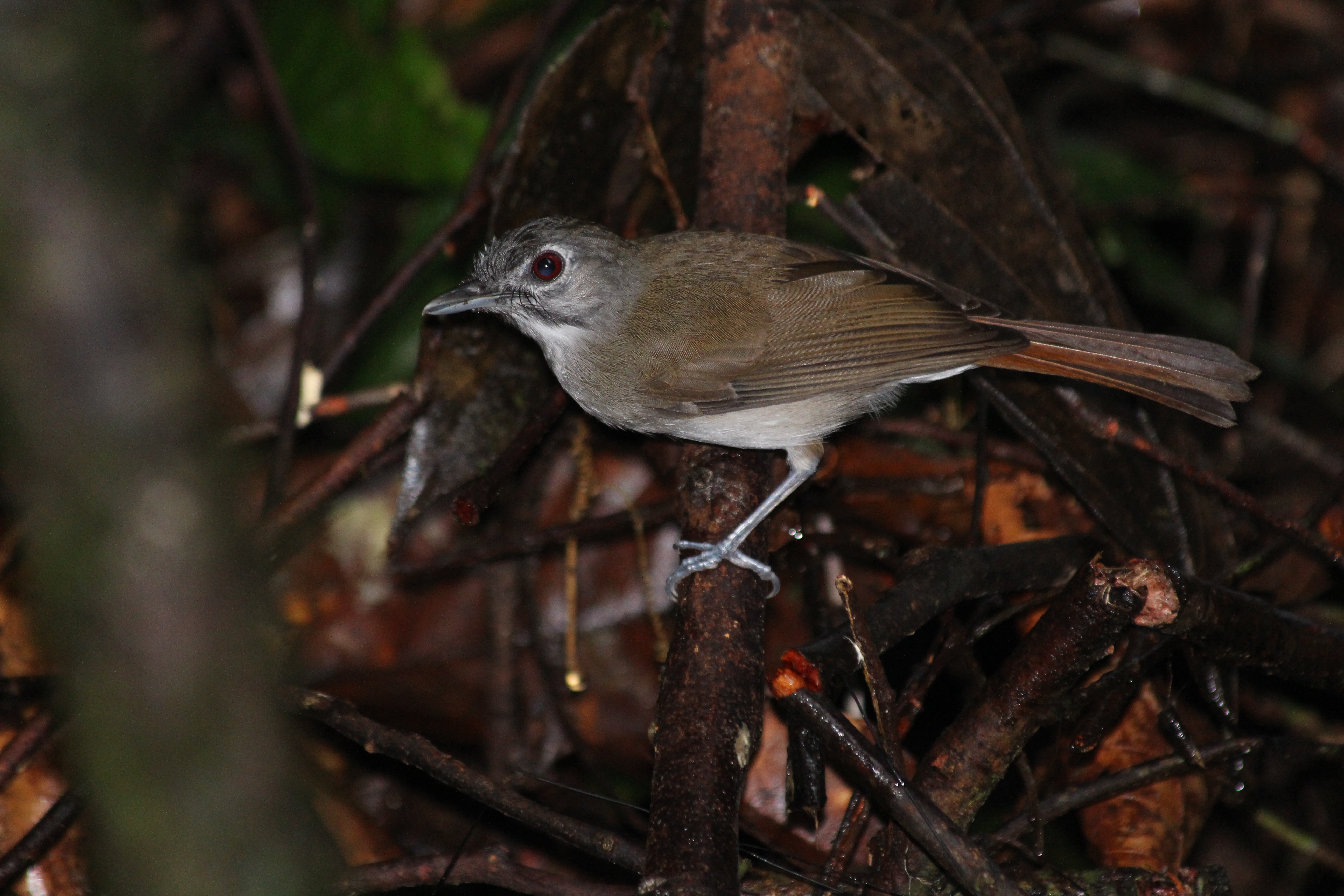 Moustached Babbler Malacopteron magnirostre, Danum Valley, Sabah, Borneo